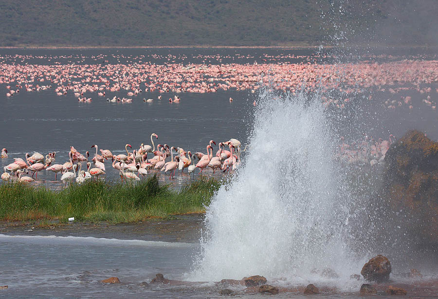 Situated on a volcanic hotspot on Africa's Great Rift Valley, lonely Lake Bogoria is a caustic cauldron fringed by geysers and populated by over a million flamingoes. When we visited Bogoria we were the only people there! (Lake Bogoria, Kenya)